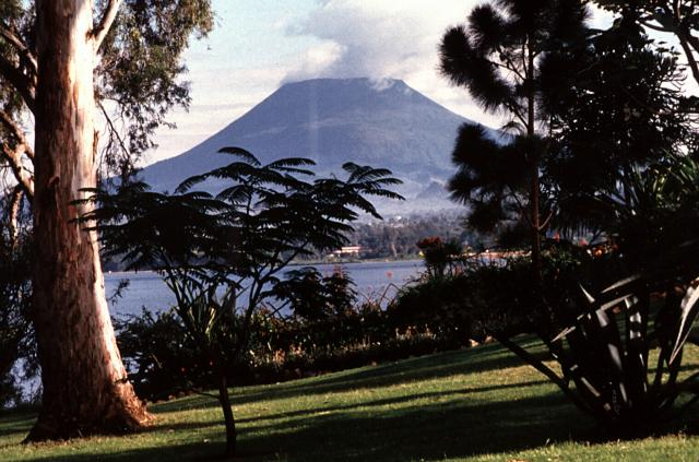 One of Africa's most notable volcanoes, Nyiragongo is seen here from the south across Lake Kivu at Peyer Yard in Rwanda. Nyiragongo contained a lava lake in its deep summit crater that was active for half a century before draining suddenly in 1977. In contrast to the low profile of its neighboring shield volcano, Nyamuragira, 3470-m-high Nyiragongo displays the steep slopes of a stratovolcano. About 100 parasitic cones are located primarily along radial fissures east of the summit and along a NE-SW zone extending as far as Lake Kivu.